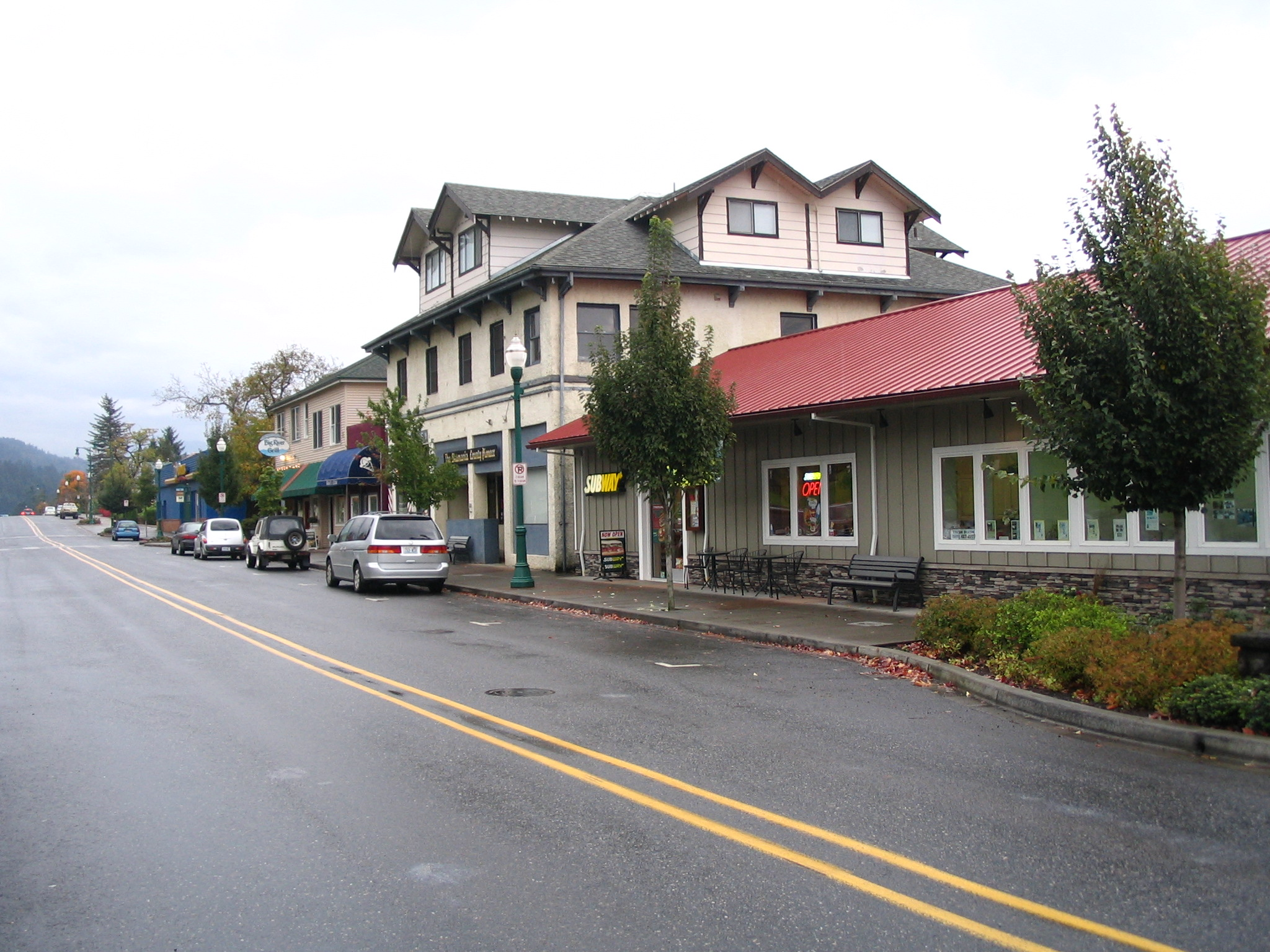 Main street of Stevenson, Washington, USA, showing a number of shops including a Subway and the Big River Grill. A number of cars are parallel parked by the street and tree-covered hills are visible in the distance.